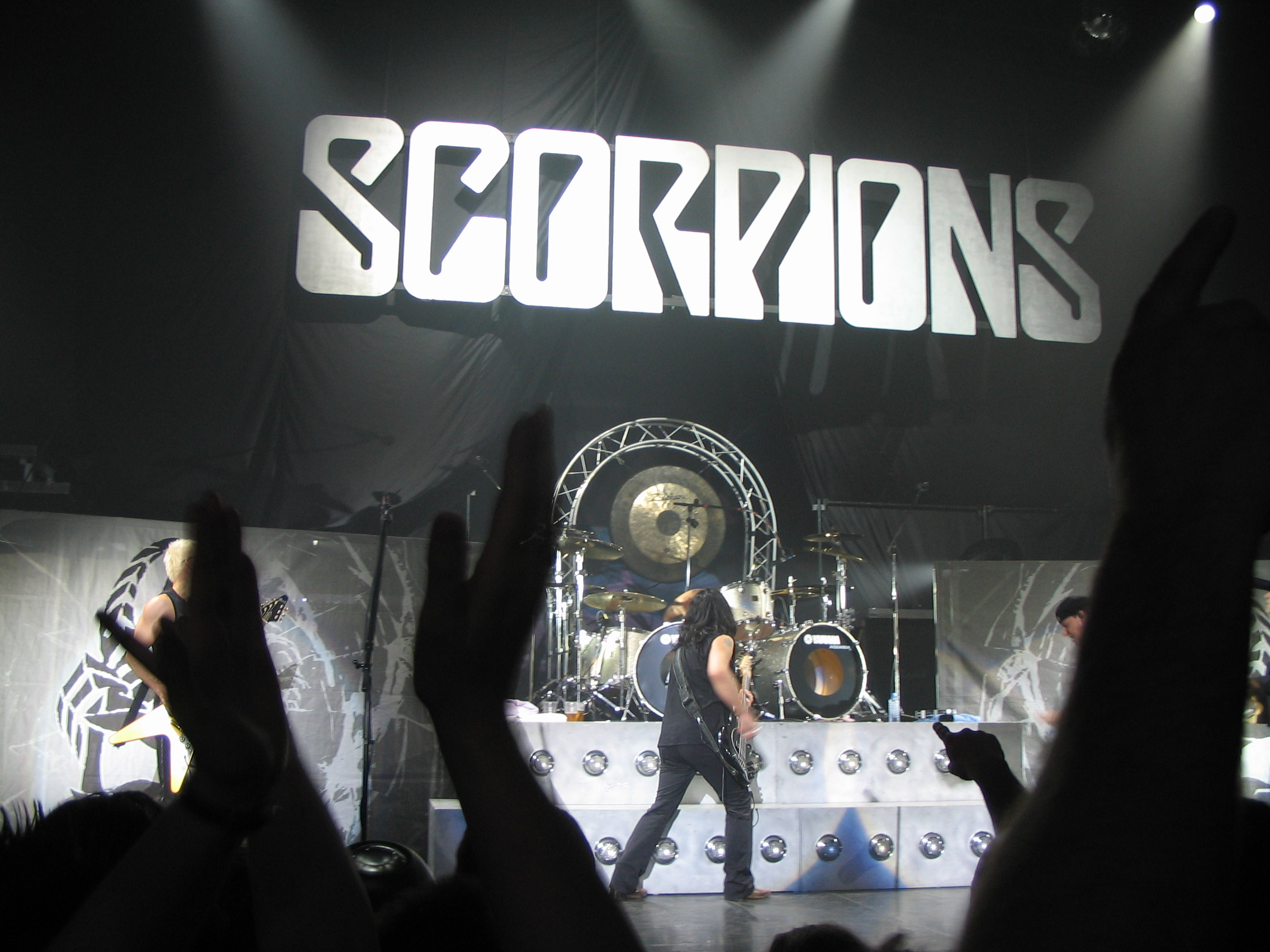 Ralph Rieckermann of Scorpions.